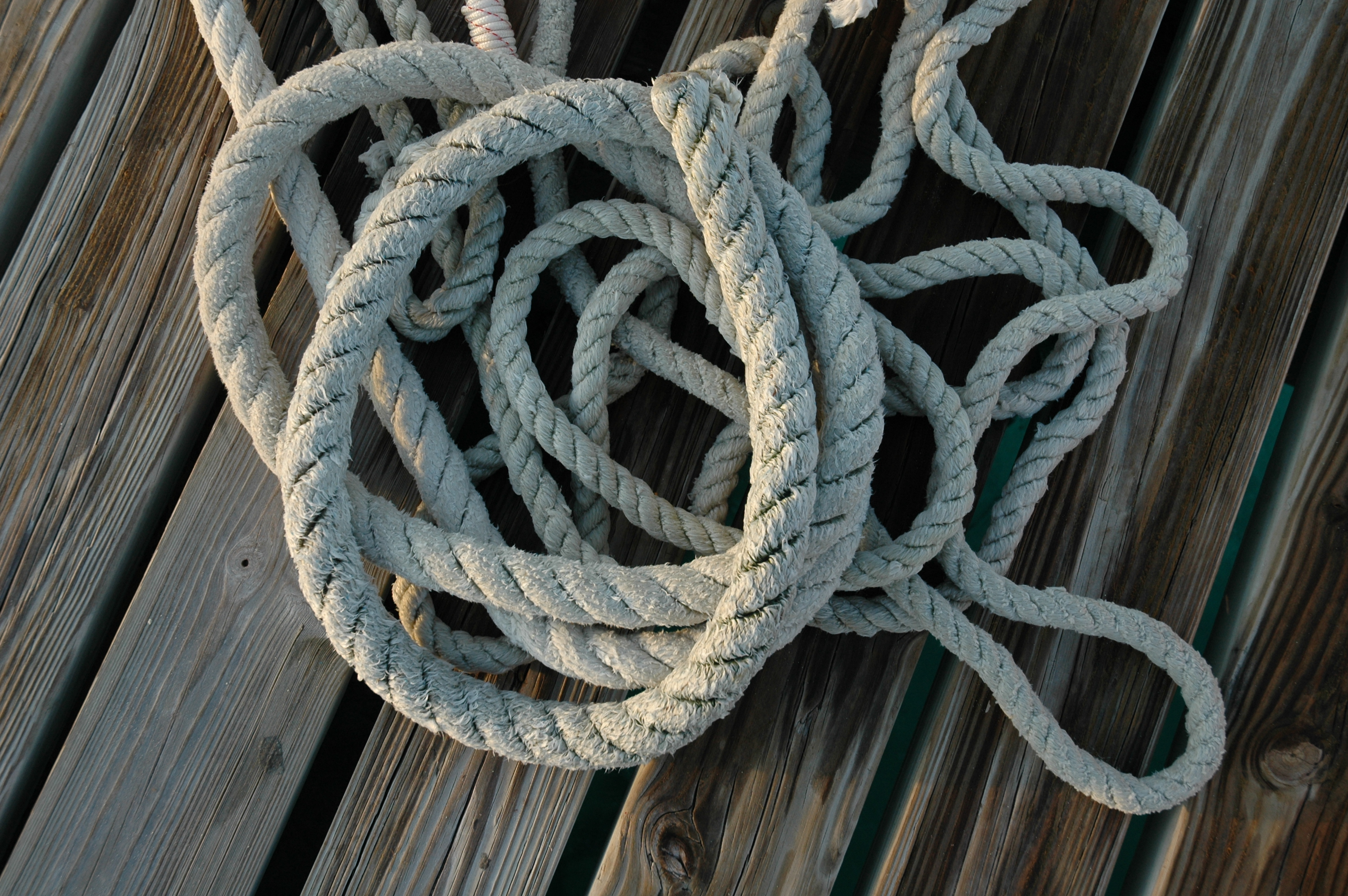 Rope on a wooden deck.